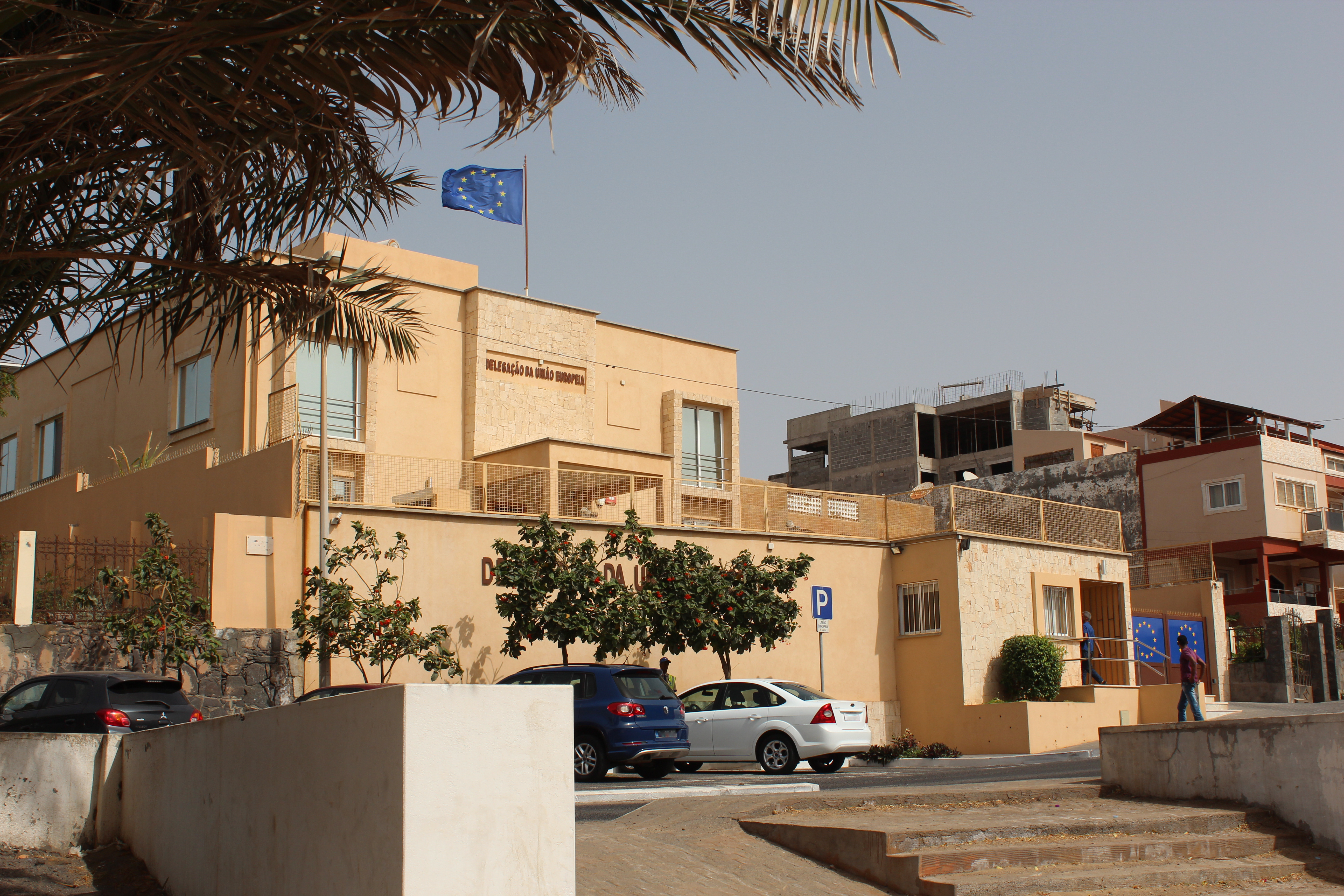 Delegation of the European Union in Praia, Cabo Verde.